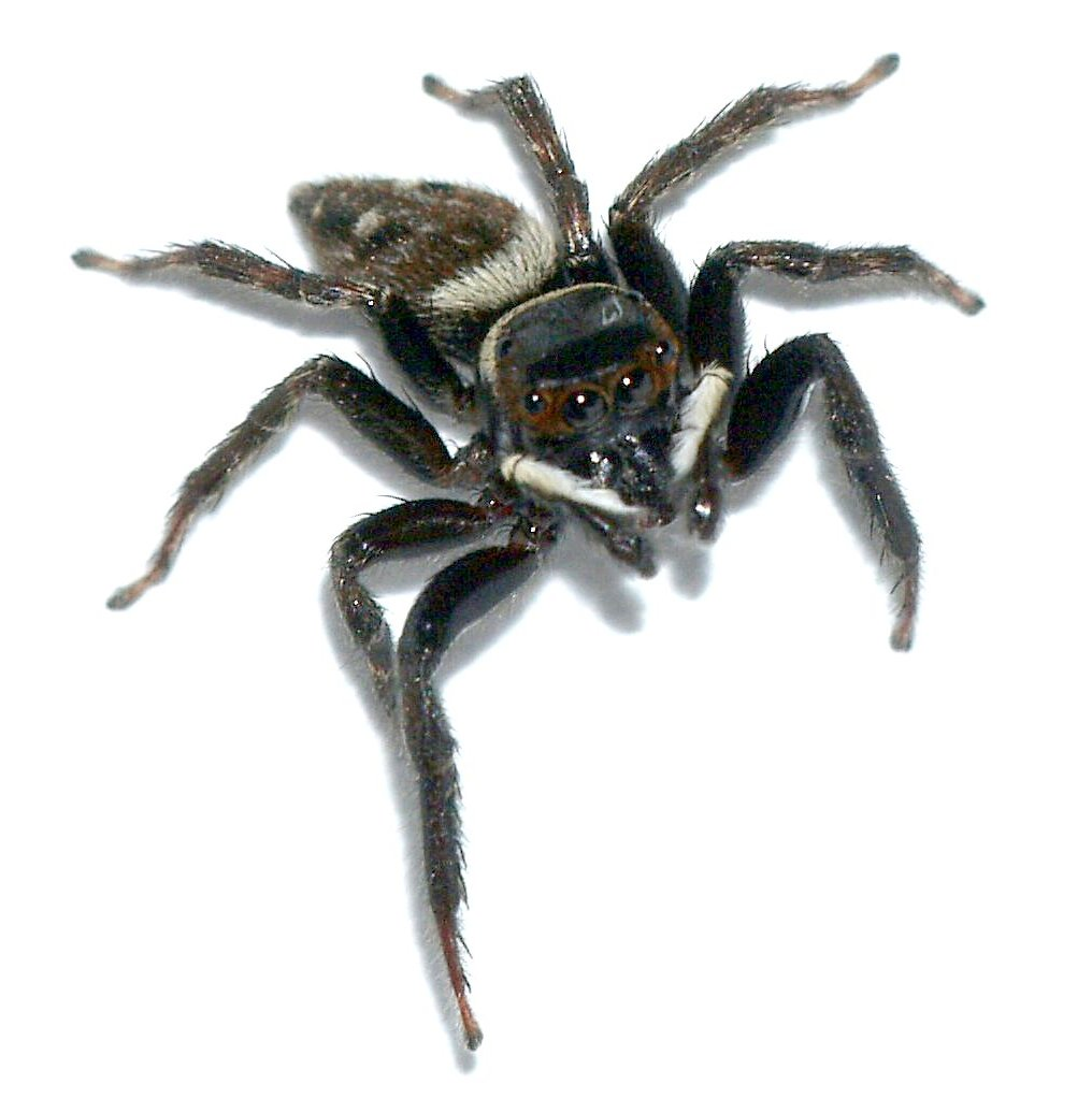 Male Hasarius adansoni, from Cologne Zoo, Germany.